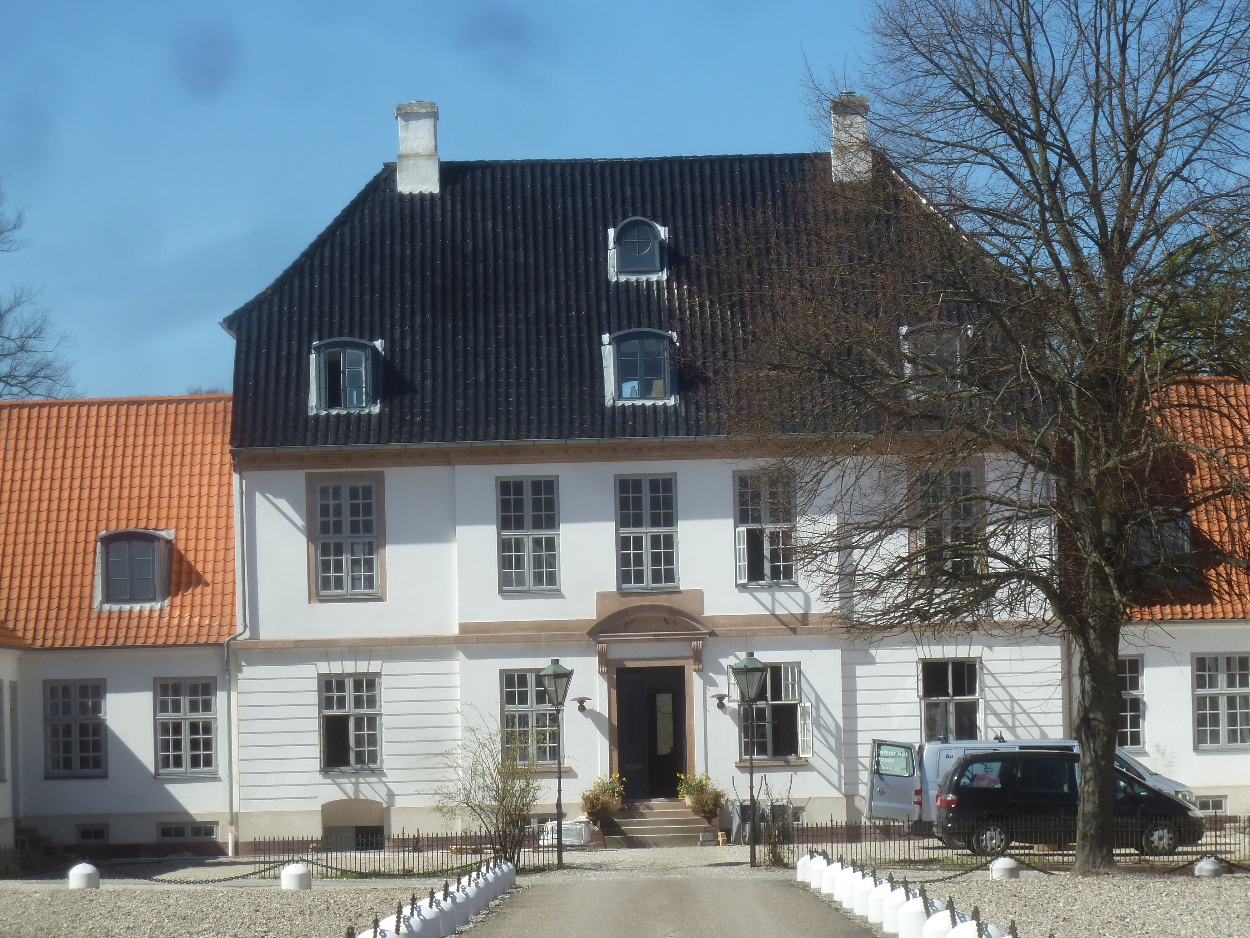 Edelgave, Egedal Municipality, Denmark